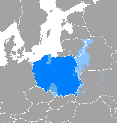 Polish language map